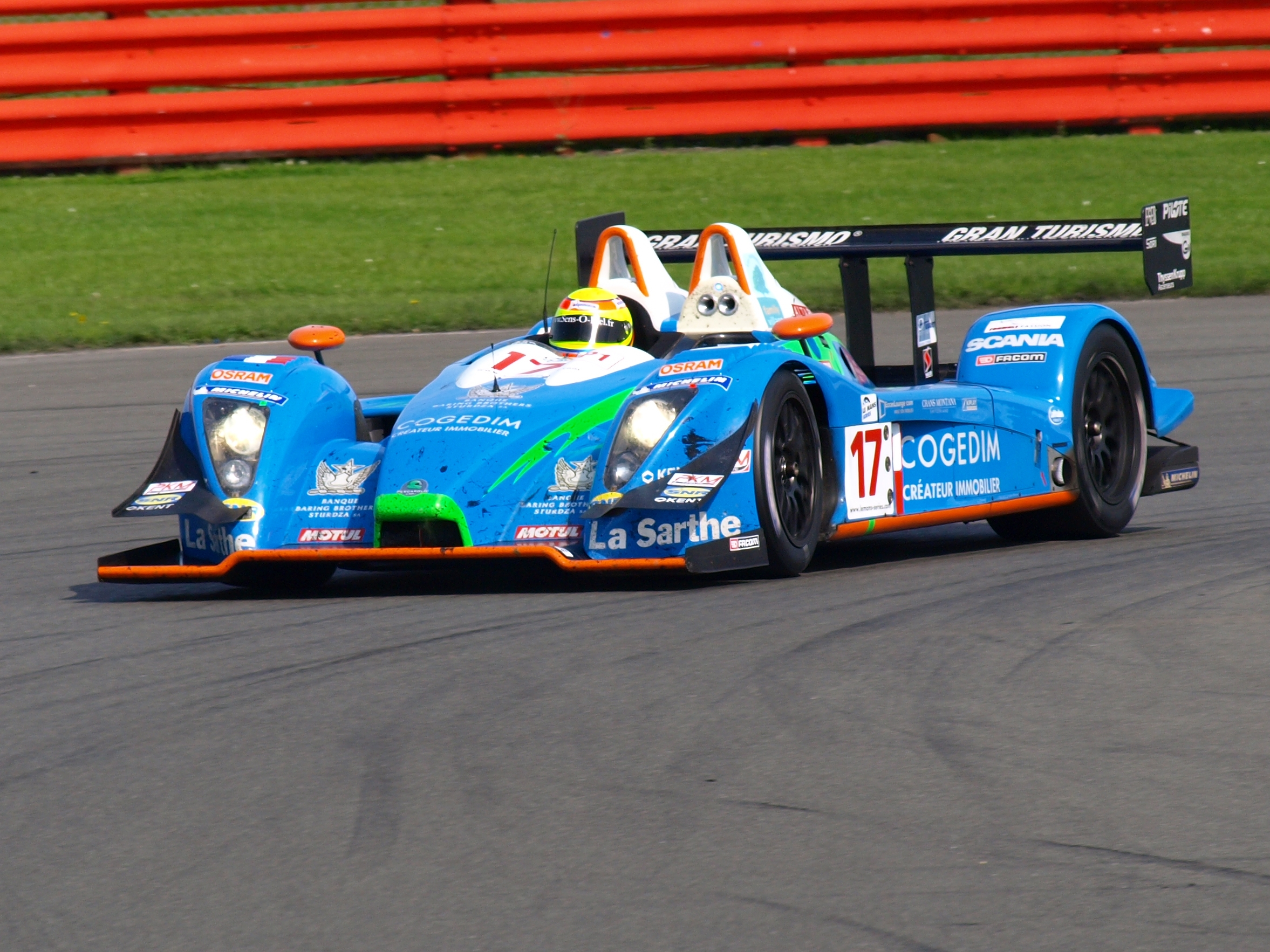 Chrisophe Tinseau at the wheel of Pescarolo Sport's Pescarolo 01-Judd at the 2008 1000km of Silverstone.